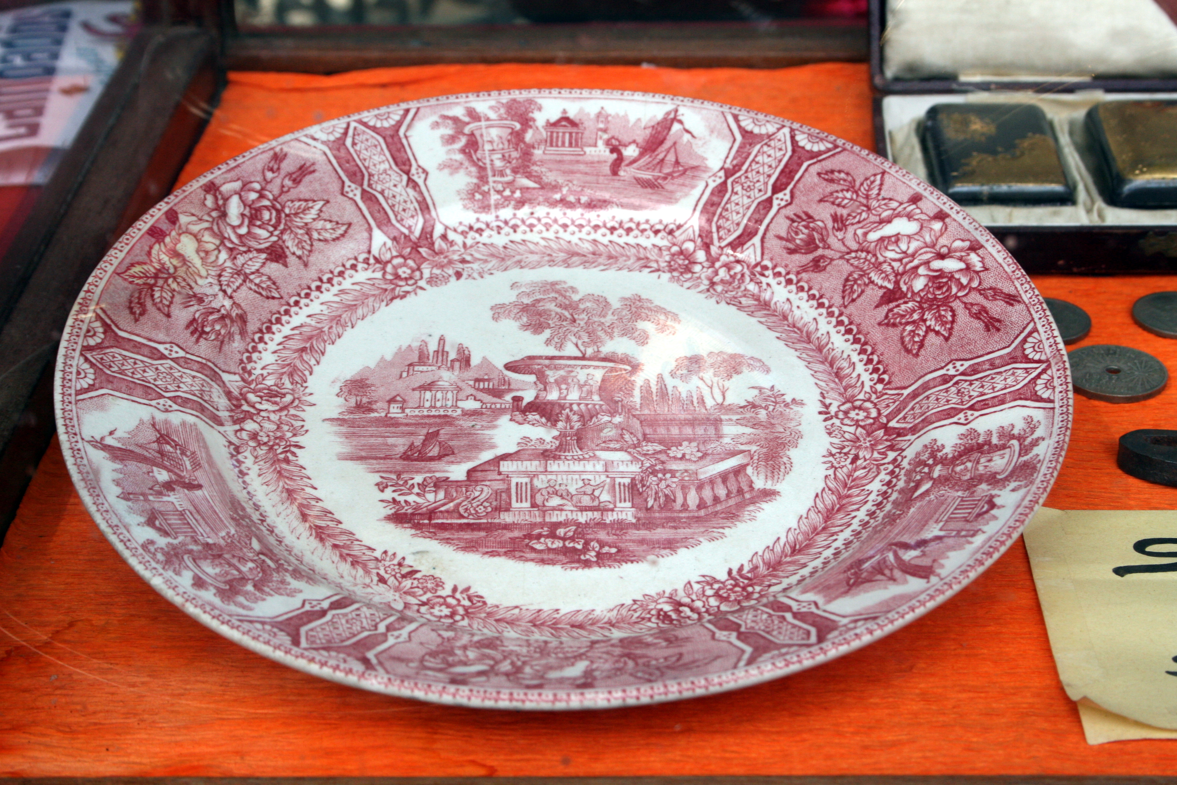 Rose plate of Sargadelos, Third Age (century XIX). This photograph was taken during an antiques fair in Cambados, Galicia, Spain.